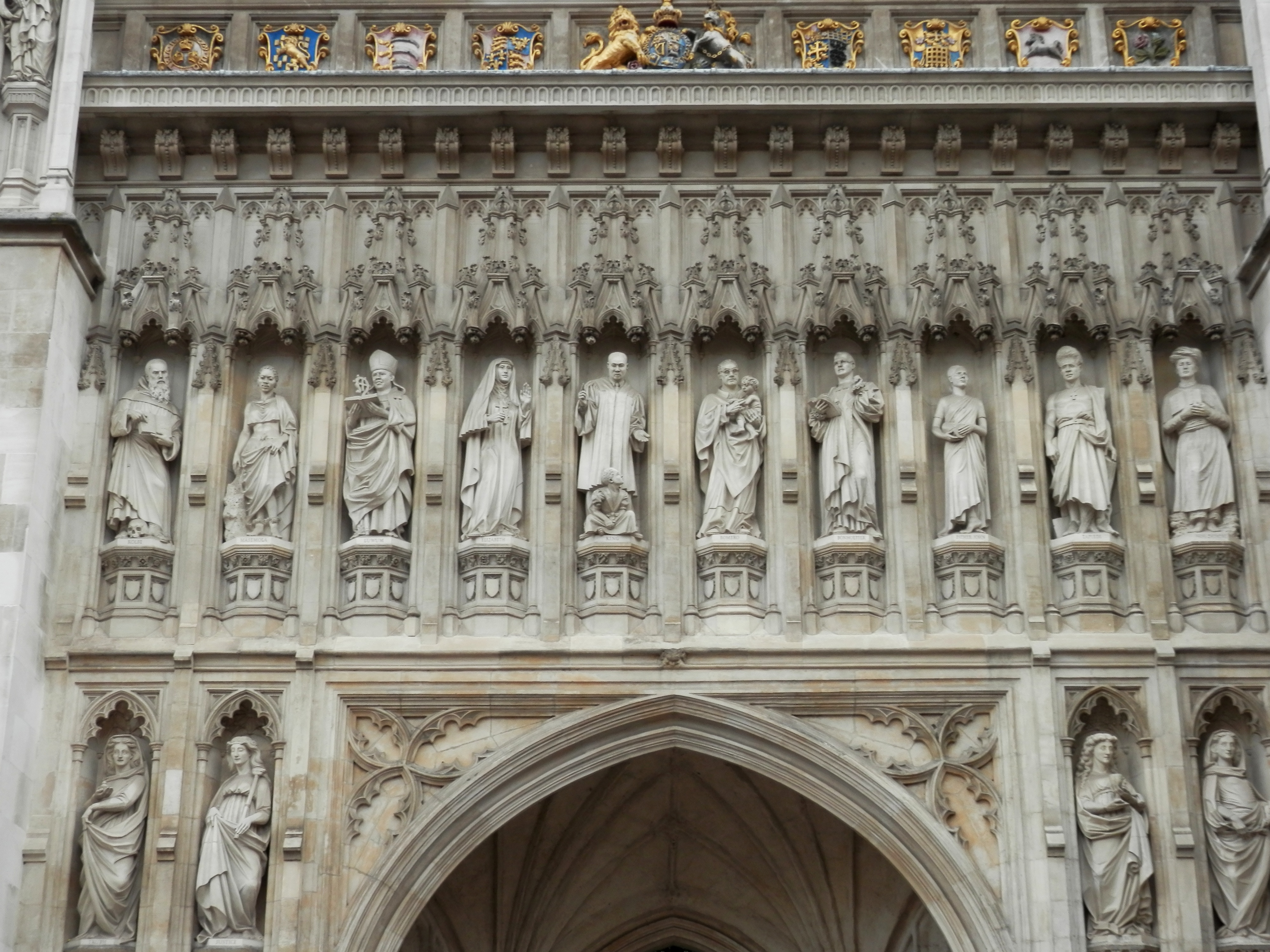 Westminster Abbey (The Collegiate Church of St Peter, Westminster, London)